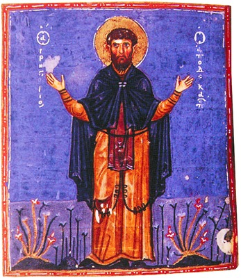 Gregorio Decapolita